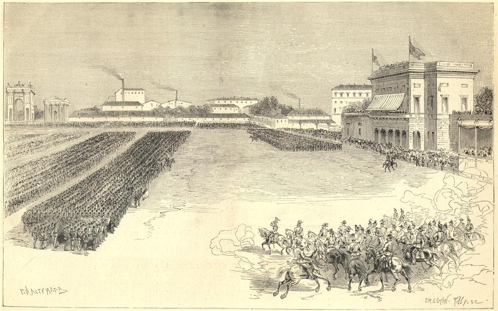 The great review of the Army Plaza (nowadays Parco Sempione) in Milan, Italy, for Wilhelm I of Germany, in 1875". From "L'Illustration", 1875. Drawing by Paul-Adolphe Kauffmann (1849-1935?), engraving by Joseph Burn-Smeeton (floruit 1840-1880) and his pupil and later partner Auguste Tilly (18..-1898) (signed as Smeeton-Tilly).